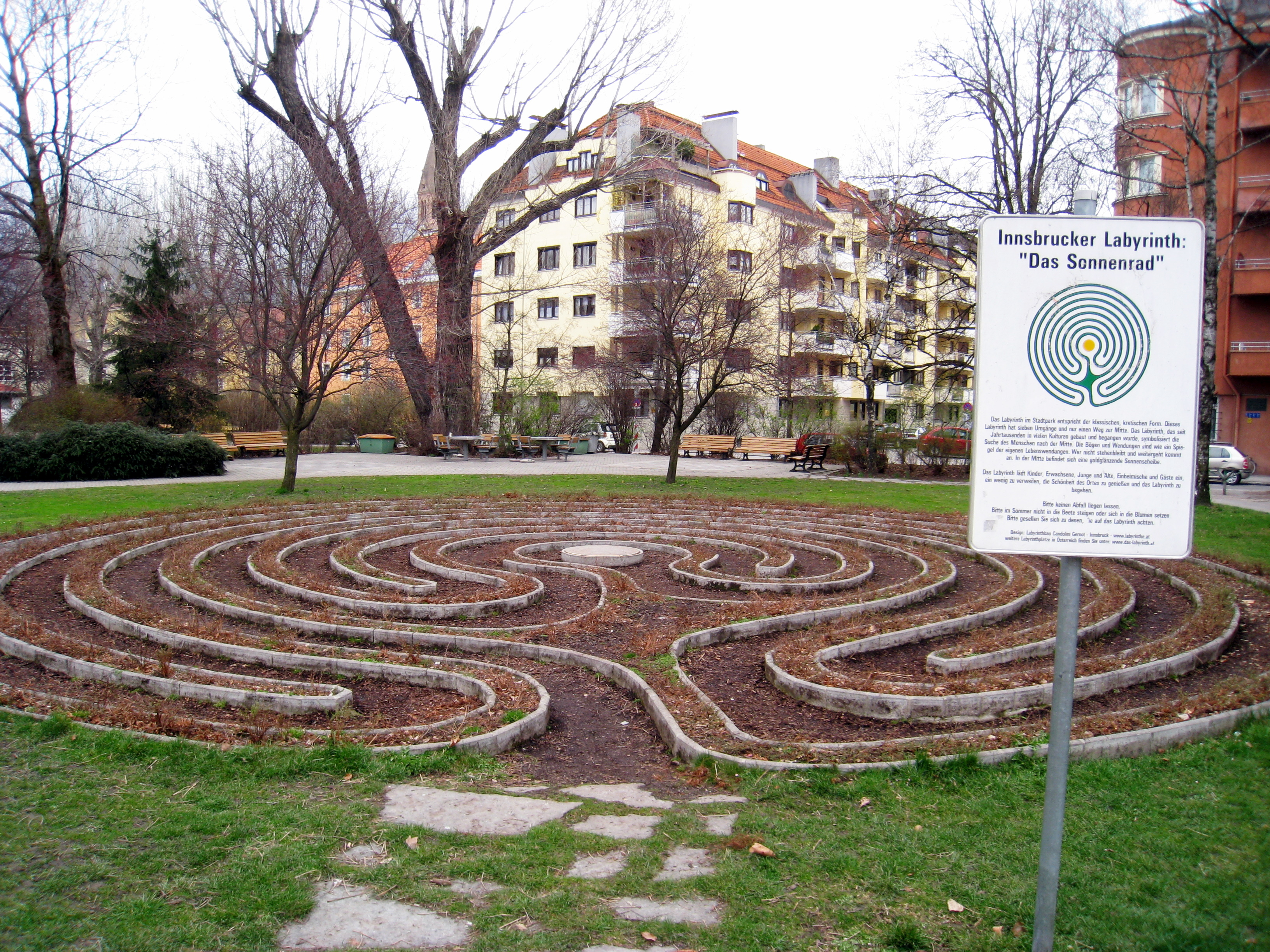 Innsbruck Labyrinth, Innsbruck, Austria.